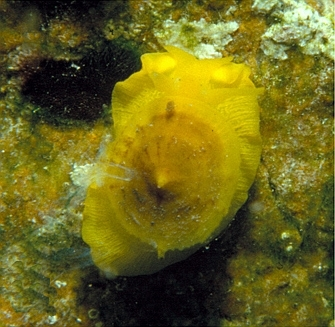 Photo of Tylodina perversa (Gmelin, 1791) (Tylodinoidea) – Mediterranean Sea.